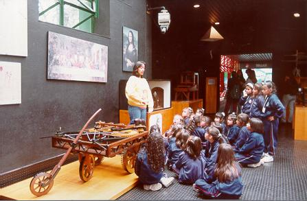 Museo de los Niños, Bogotá; Children's Museum of Bogotá, Lenardo da Vinci Exhibit